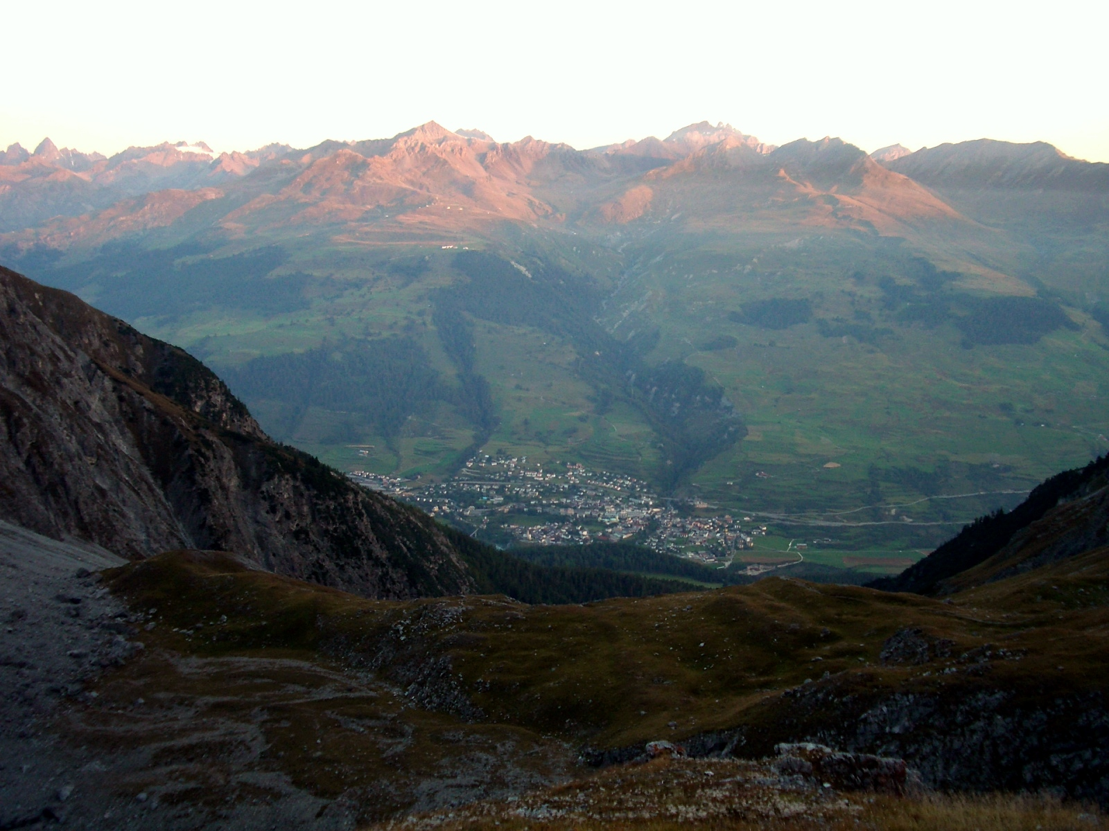 Lischana hut, Scuol GR, Switzerland self-made, September 2006